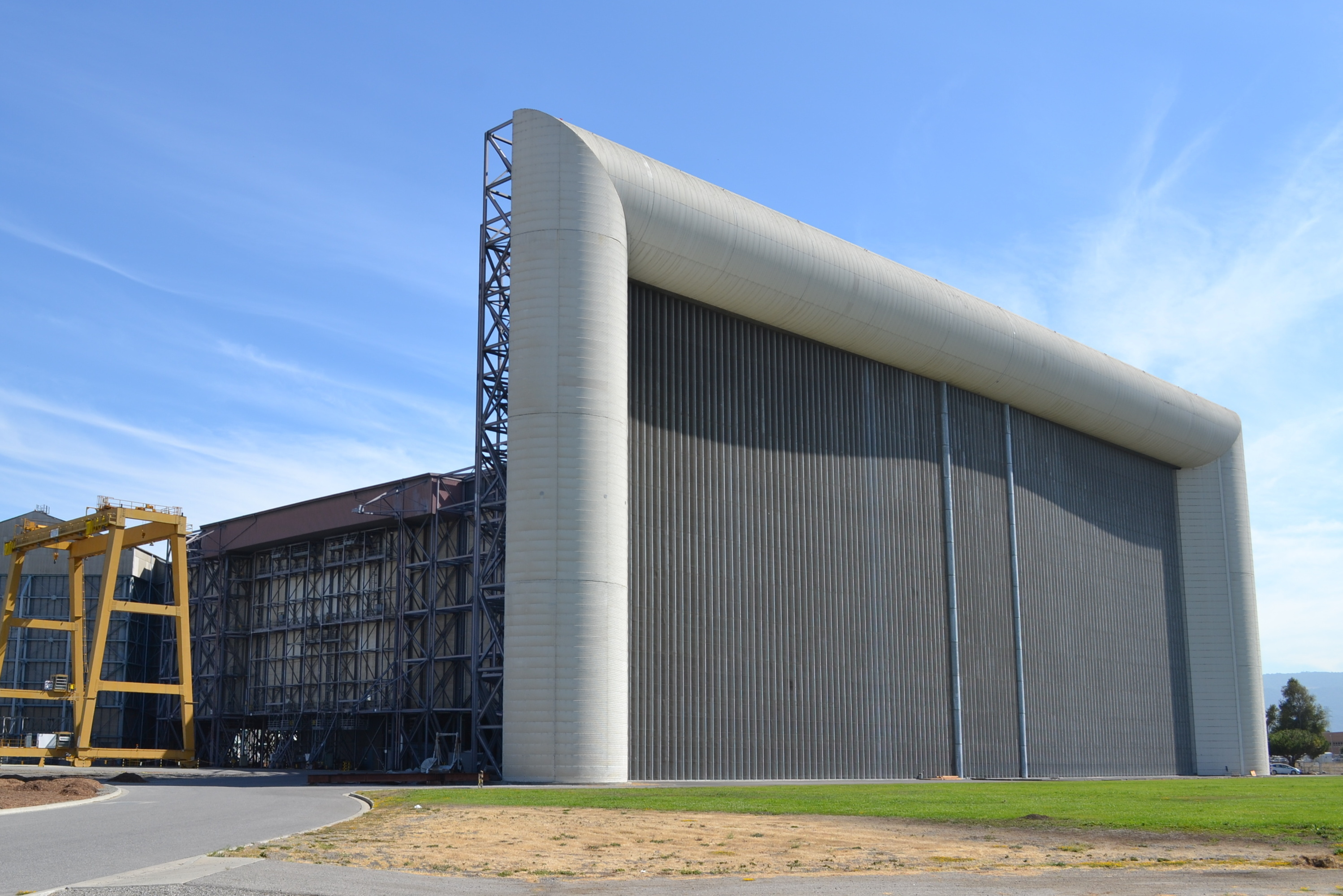 The 80 by 120 foot wind tunnel At NASA Ames in Moffett Field, CA, the largest wind tunnel in the world